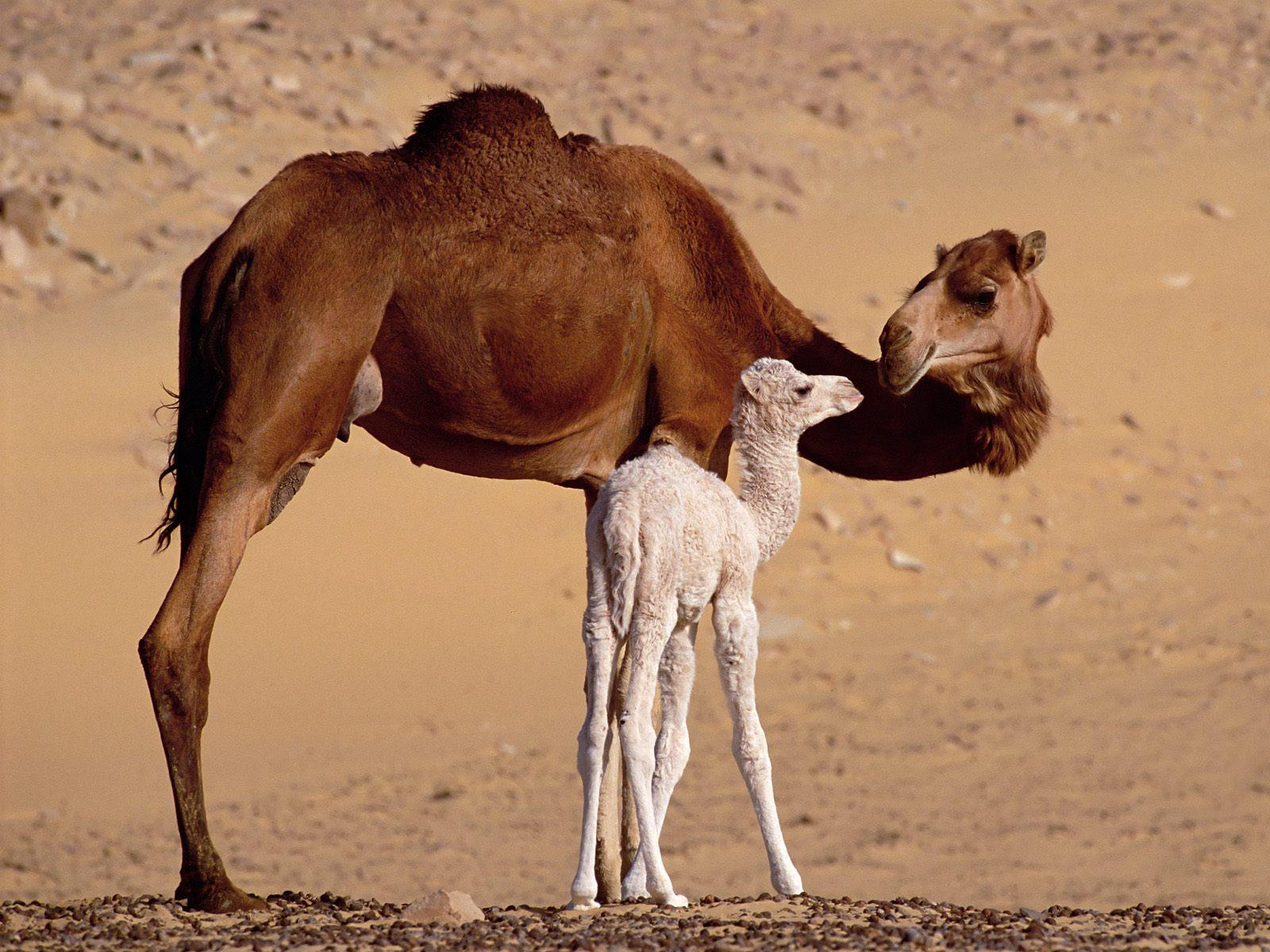 Camels near Tarfaya, Morocco.